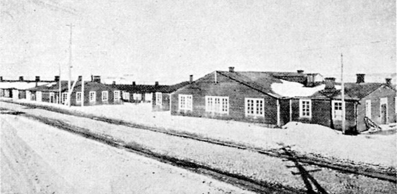 Tampere prison camp of 1918 Finnish Civil War, Tampere, Finland.